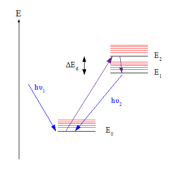 Illustration of Kasha's rule in spectroscopy.